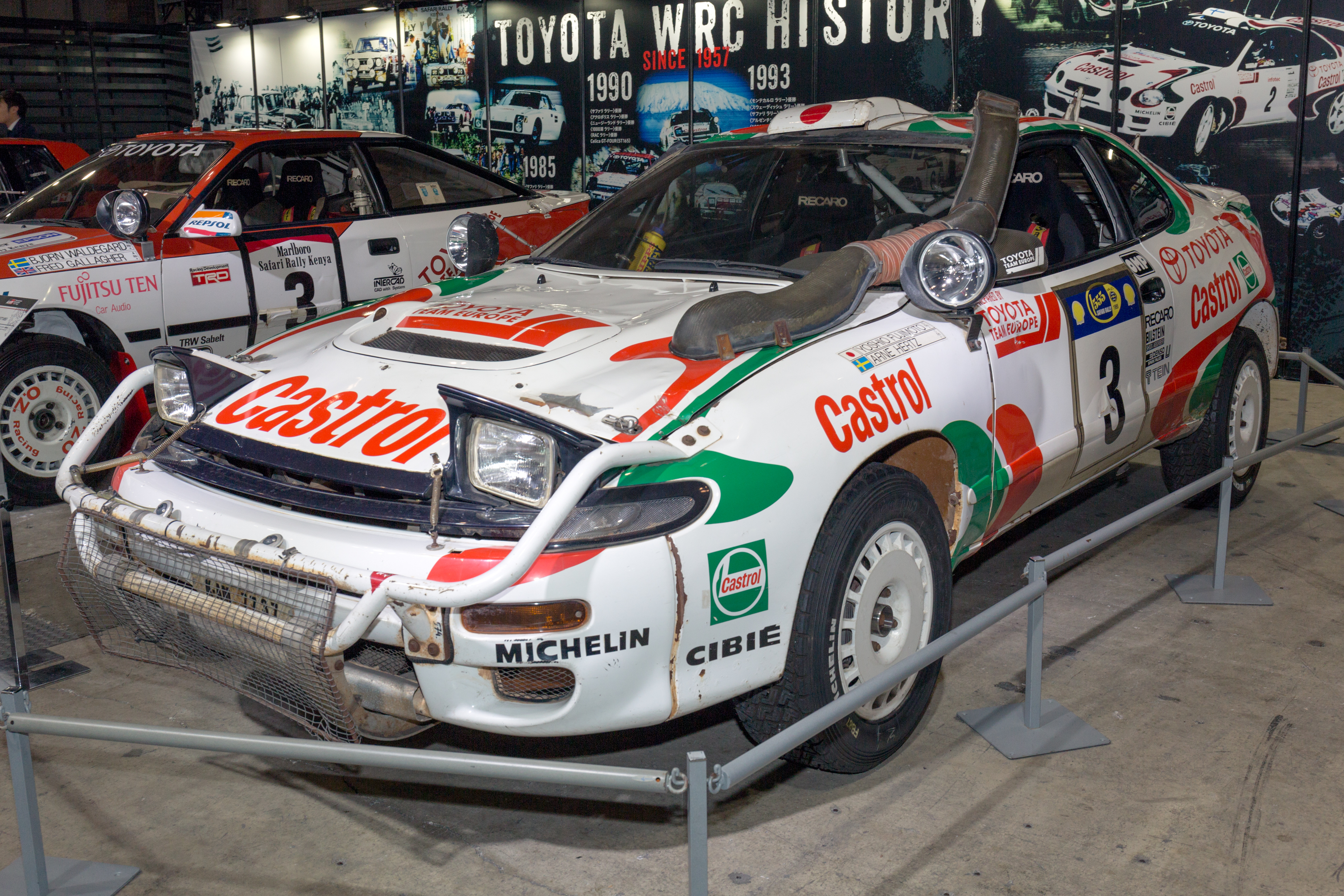 Tokyo Auto Salon 2017: 1995 Toyota Celica GT-Four ST185